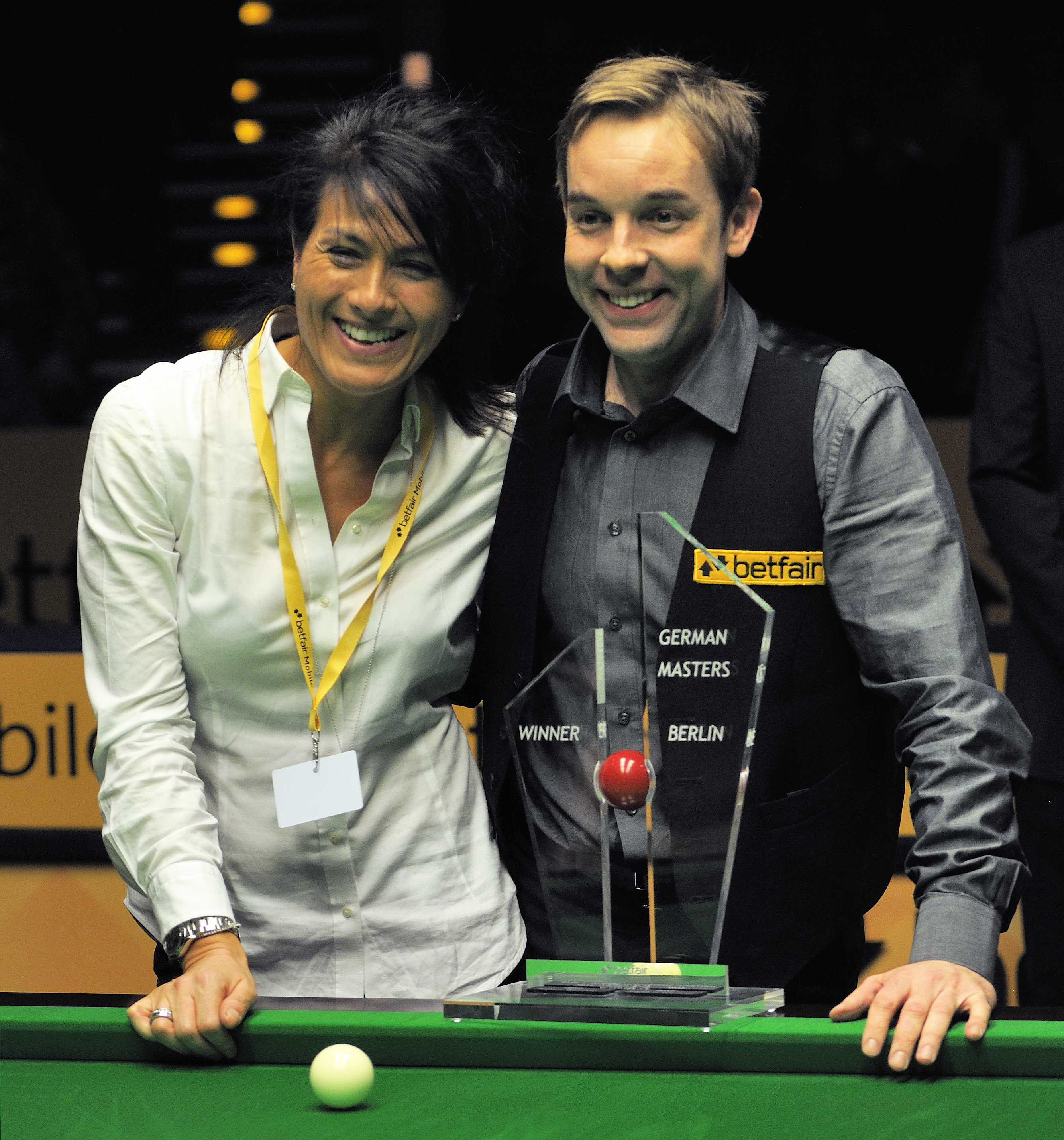 Picture taken in Berlin during the Snooker German Masters in 2013. Ali Carter.